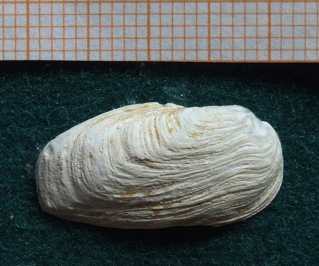 Hiatella arctica (Linnaeus, 1767), Wrinkled rock borer, right shell, Sylt, Germany